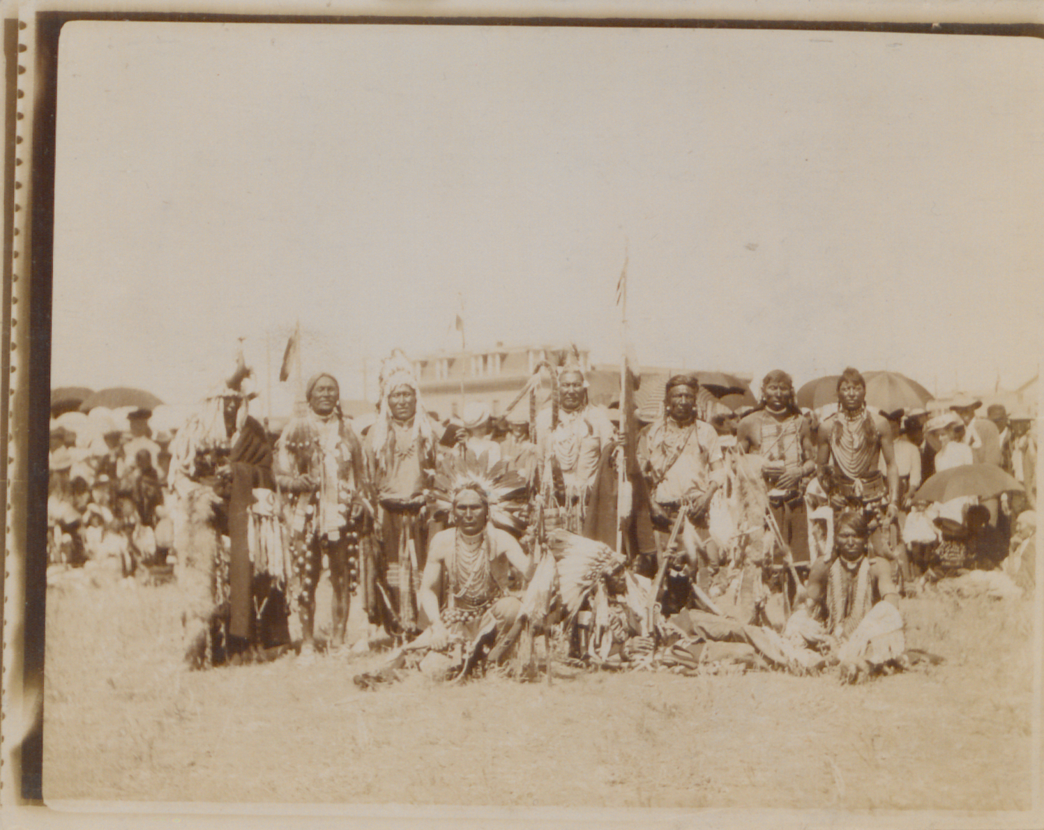 Blackfoot warriors, Macleod, Alberta.